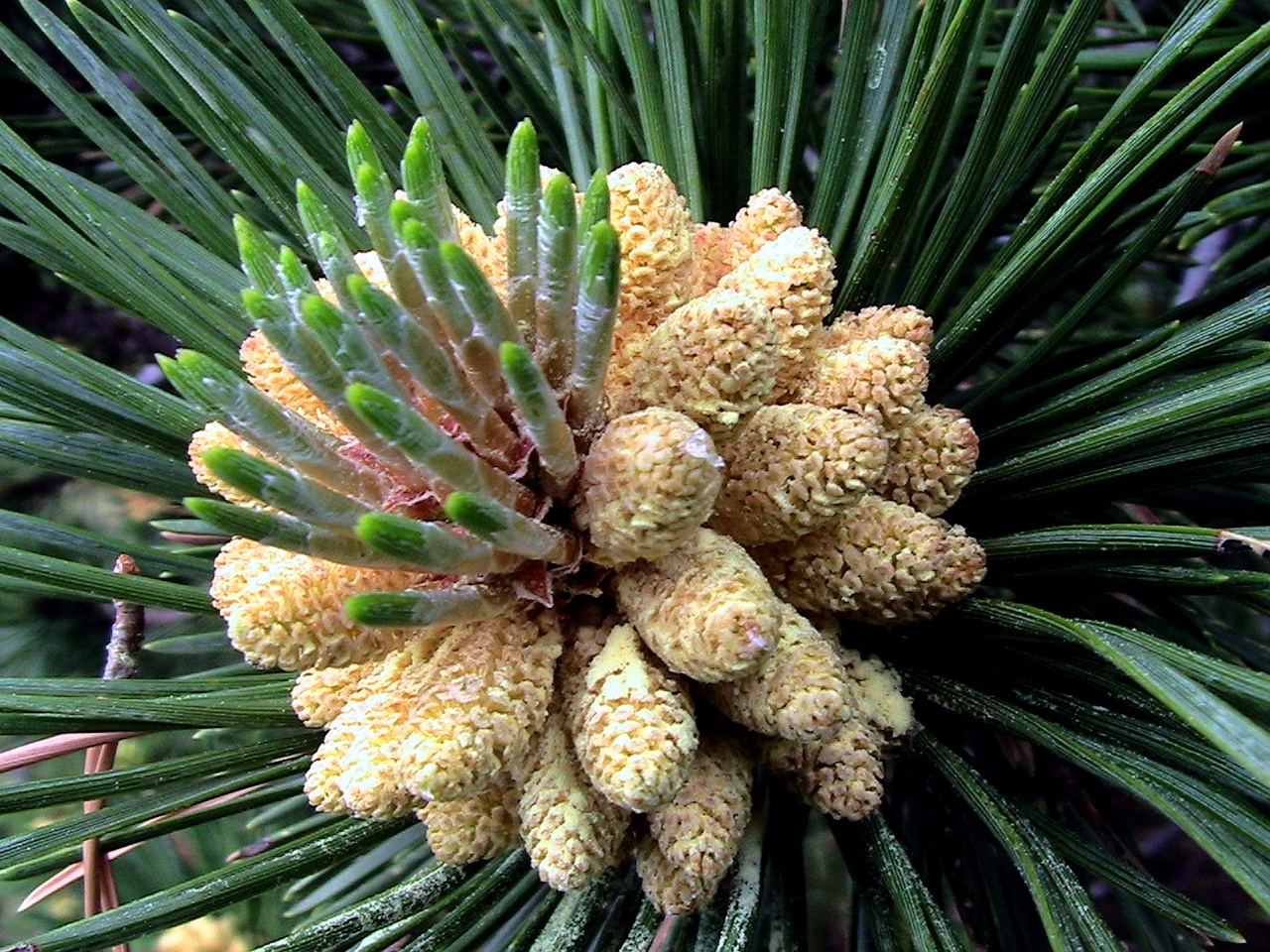 Pinus mugo. In la Bòfia, la Coma i la Pedra (Solsonès - Catalunya). To 2.060 m. altitude